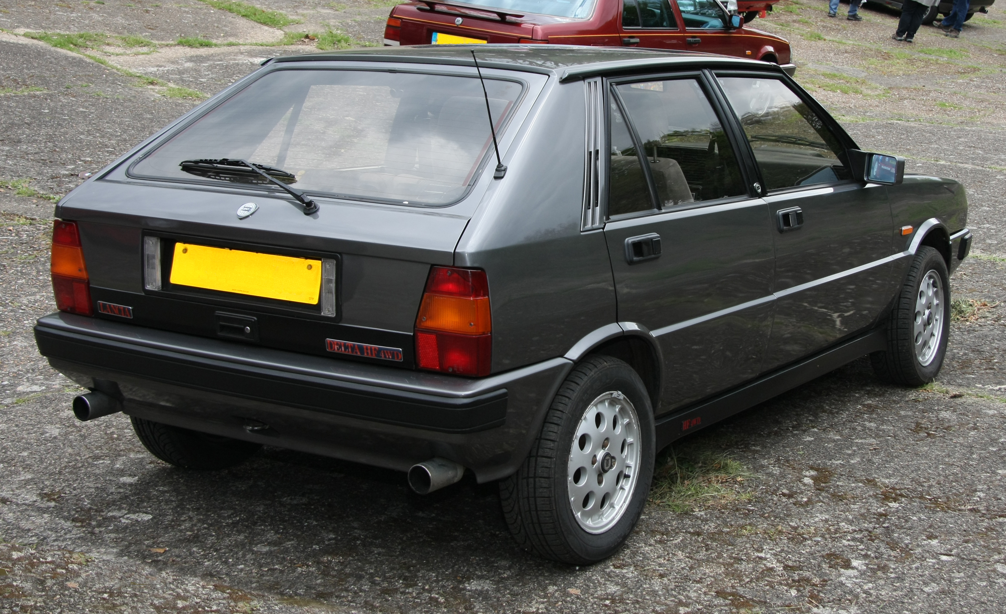 1986 Lancia Delta HF 4WD at the Auto Italia Spring car day, Brooklands UK, May 2010.